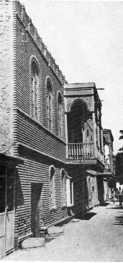 People's homes in Vaghaeshapat , now destroyed